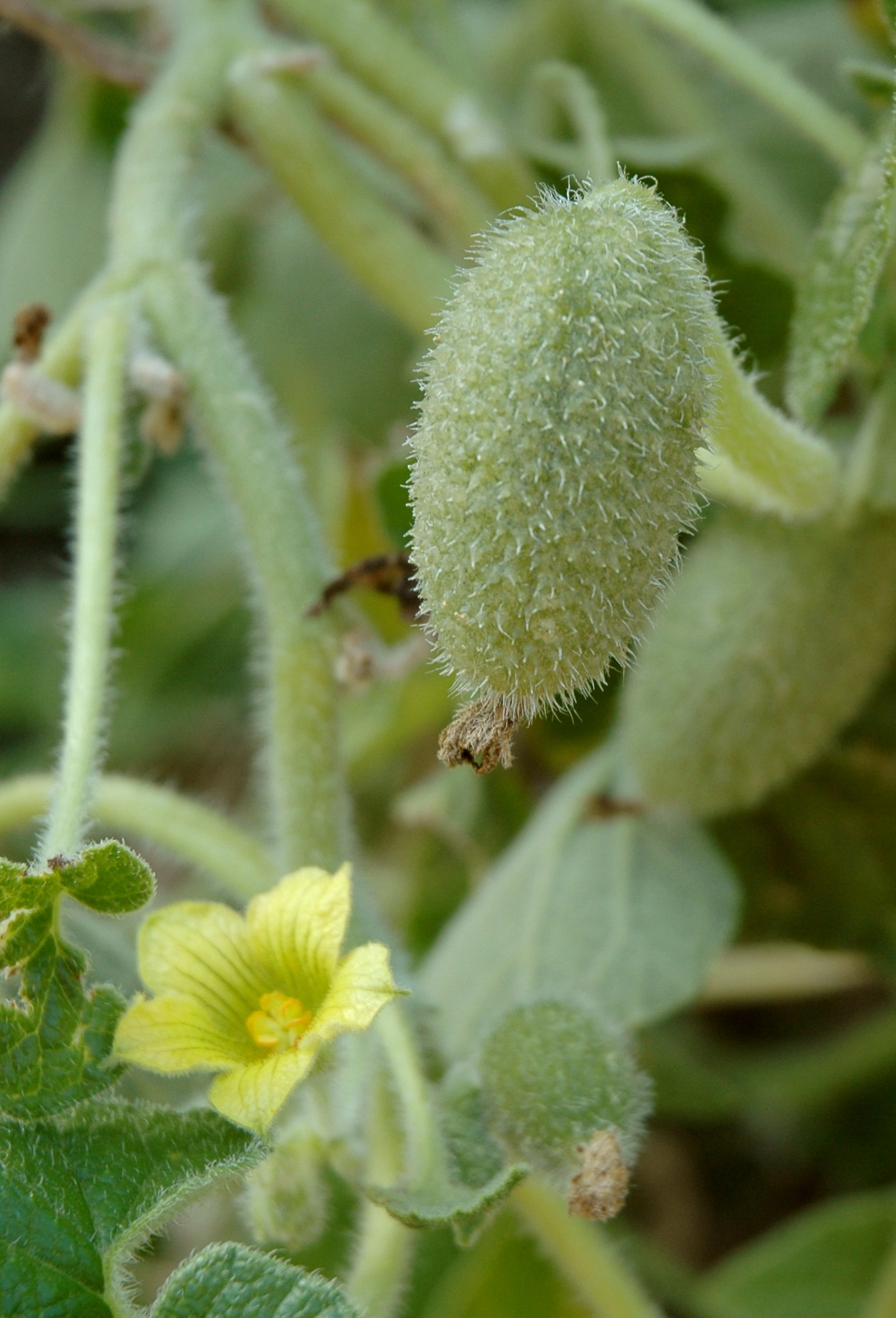 Fruit and Flower of Ecballium elaterium at Jena Botanical Garden, Germany